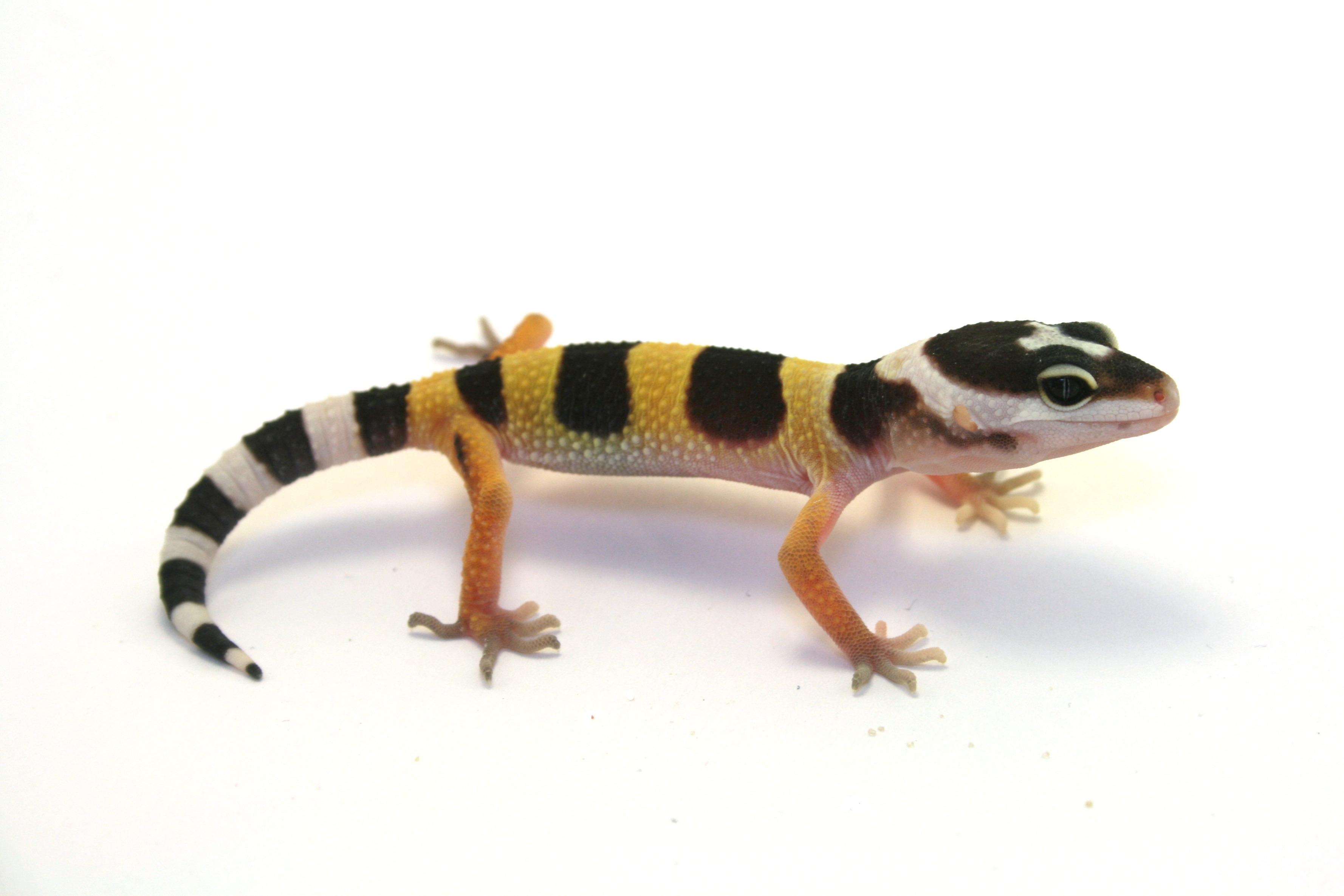 A juvenile leopard gecko